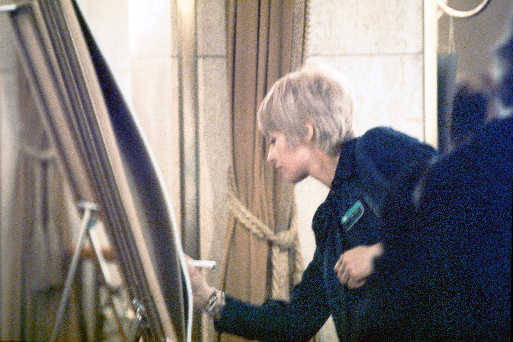 Claire Bretécher in 1973 in Montreal Supplementary technical data: digitization of a 35mm slide. Original camera: Nikon F with 43-86mm Nikkor lens